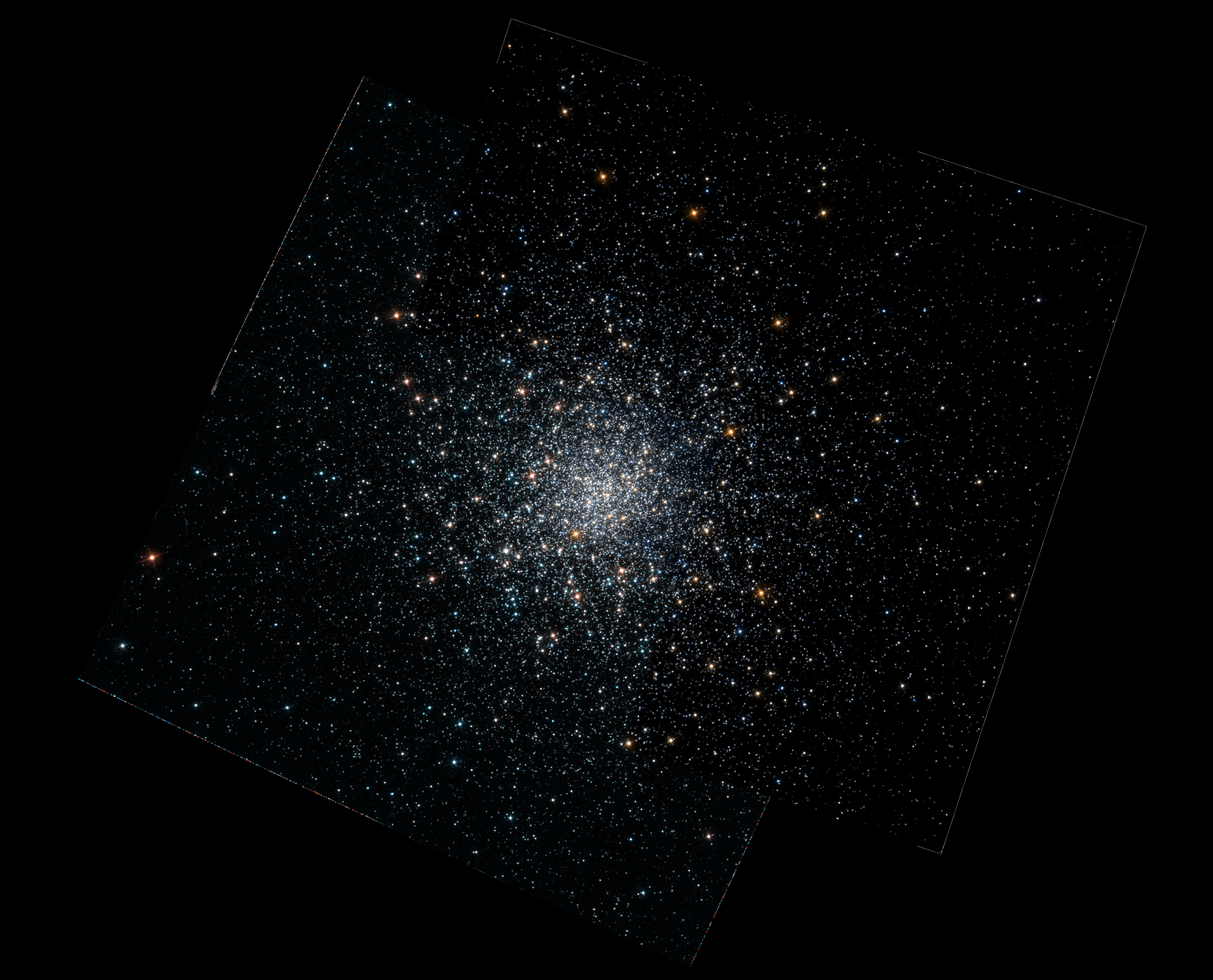 Color rendering is done by by Aladin-software (2000A&AS..143...33B.)